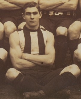 Photograph of Pen Reynolds in 1914